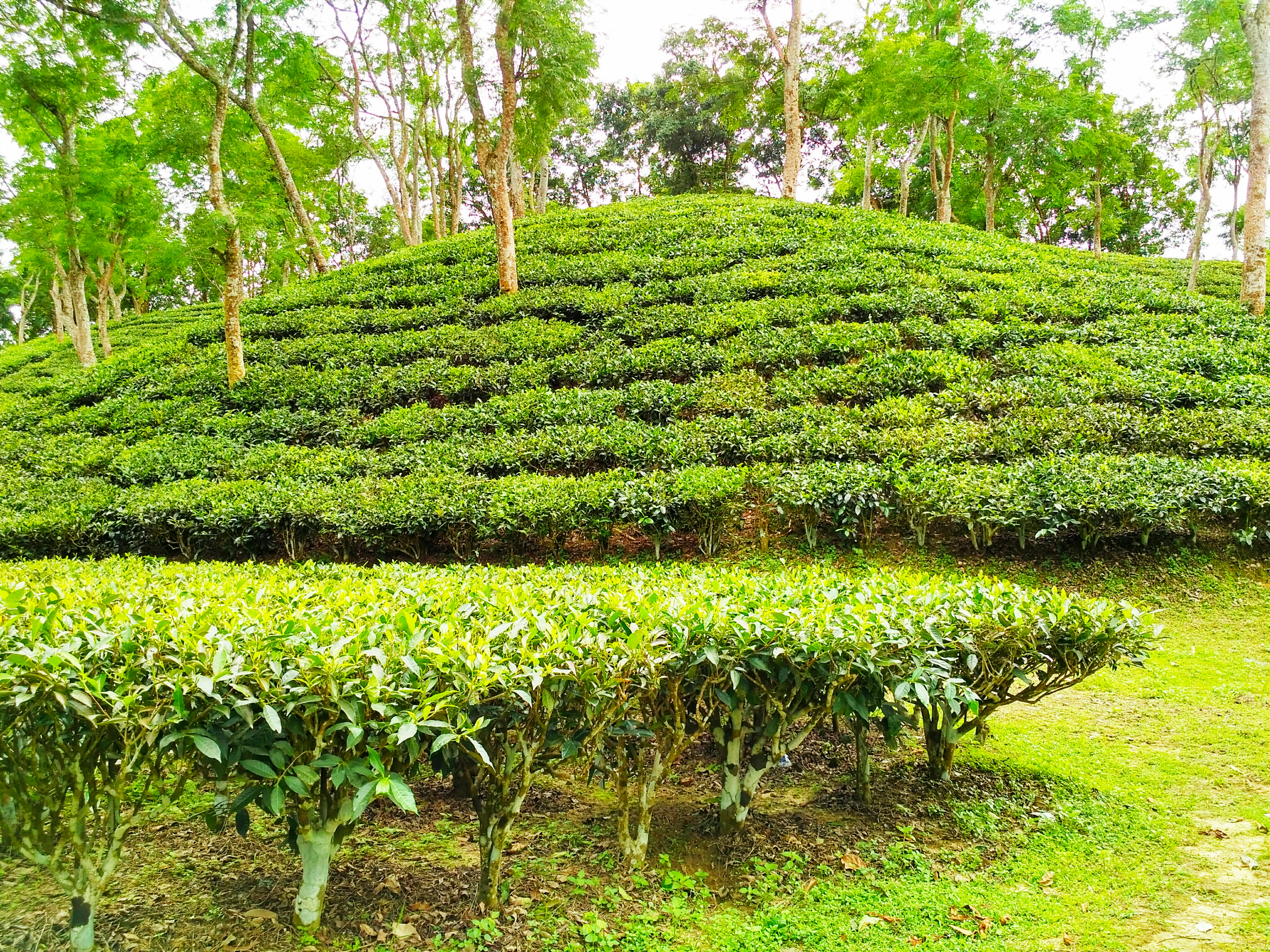 A tea garden by the side of Spa Resort Road at Putijuri in Bahubal Upazila, Habiganj, Bangladesh. ( August 2019)